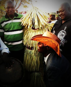 Atyap-Masquerade